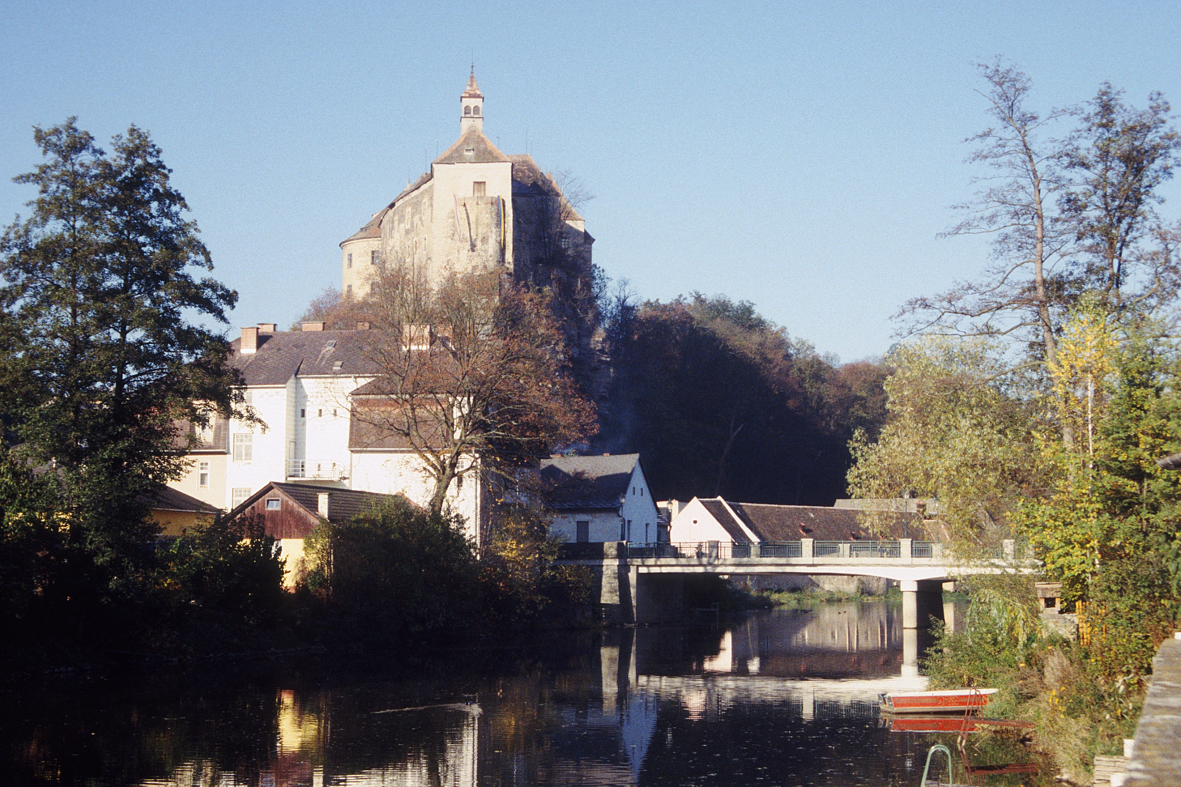 Raabs an der Thaya Castle, Lower Austria, seen from the town.